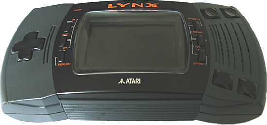 A photograph of the Atari Lynx II by User:TheEmulatorGuy.